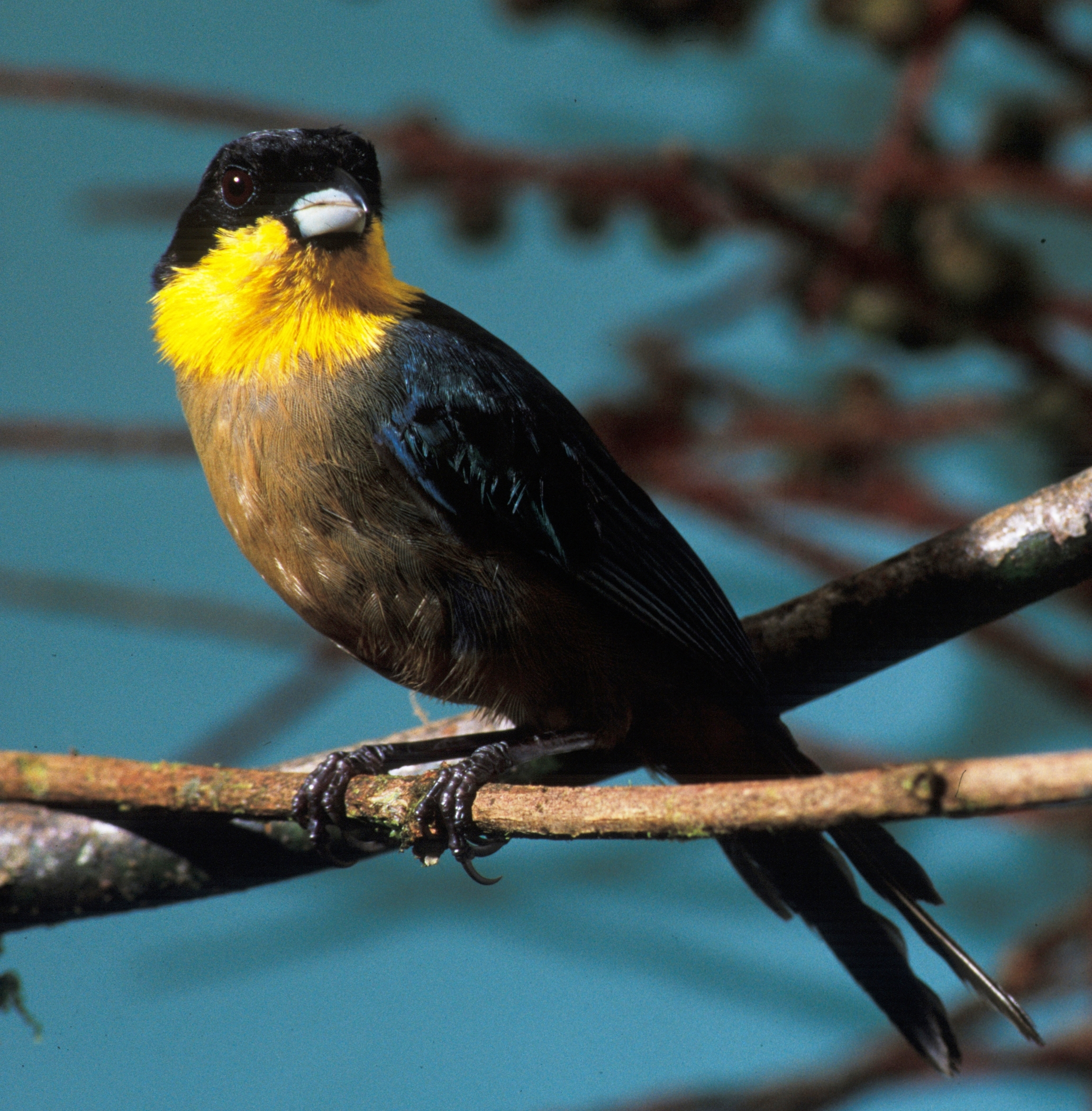 Yellow-throated Tanager photographed in Cordillera del Cóndor, Ecuador.